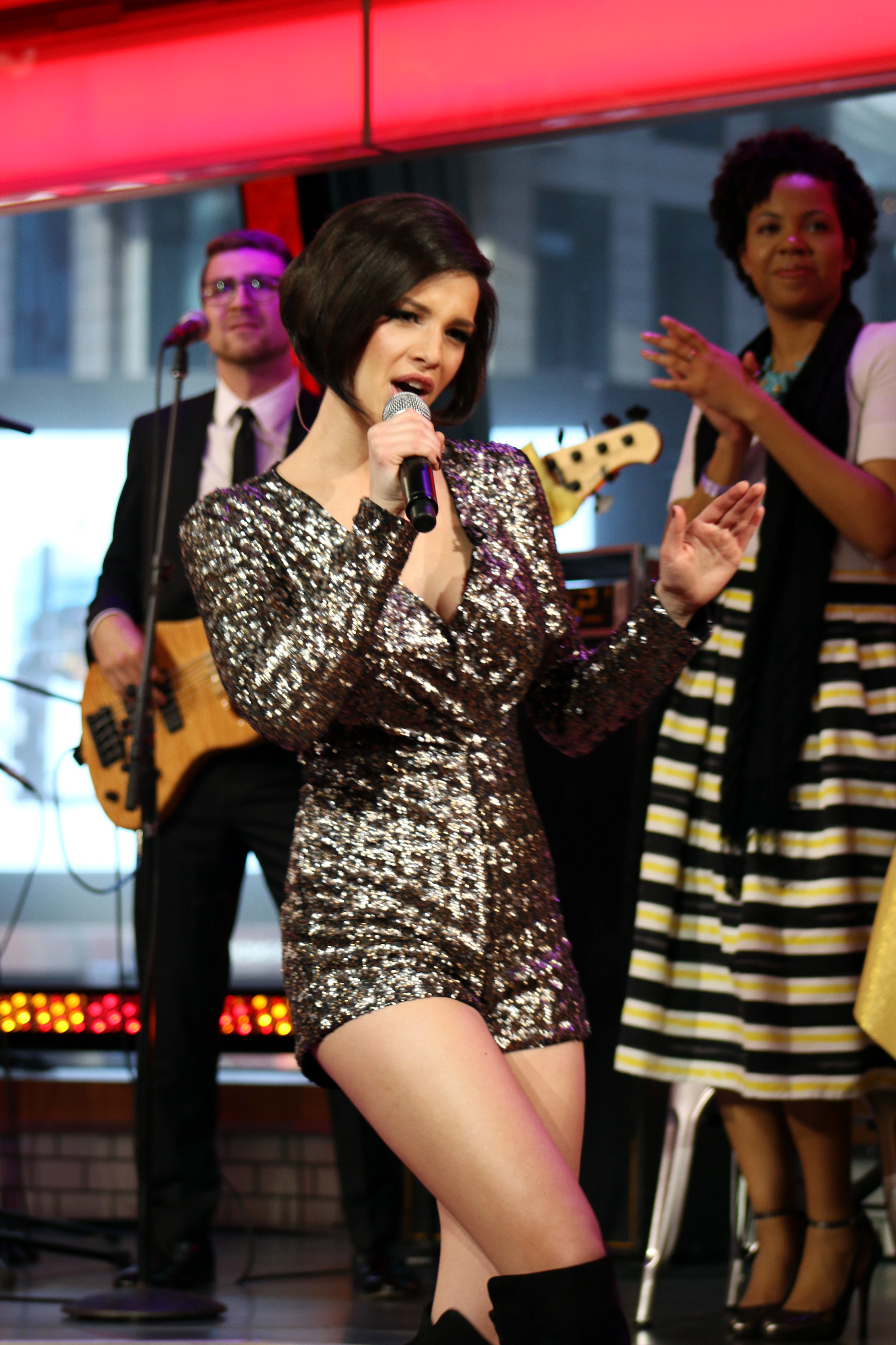 Erin Bowman's performance of "Good Time Good Life" on Good Morning America 2017.